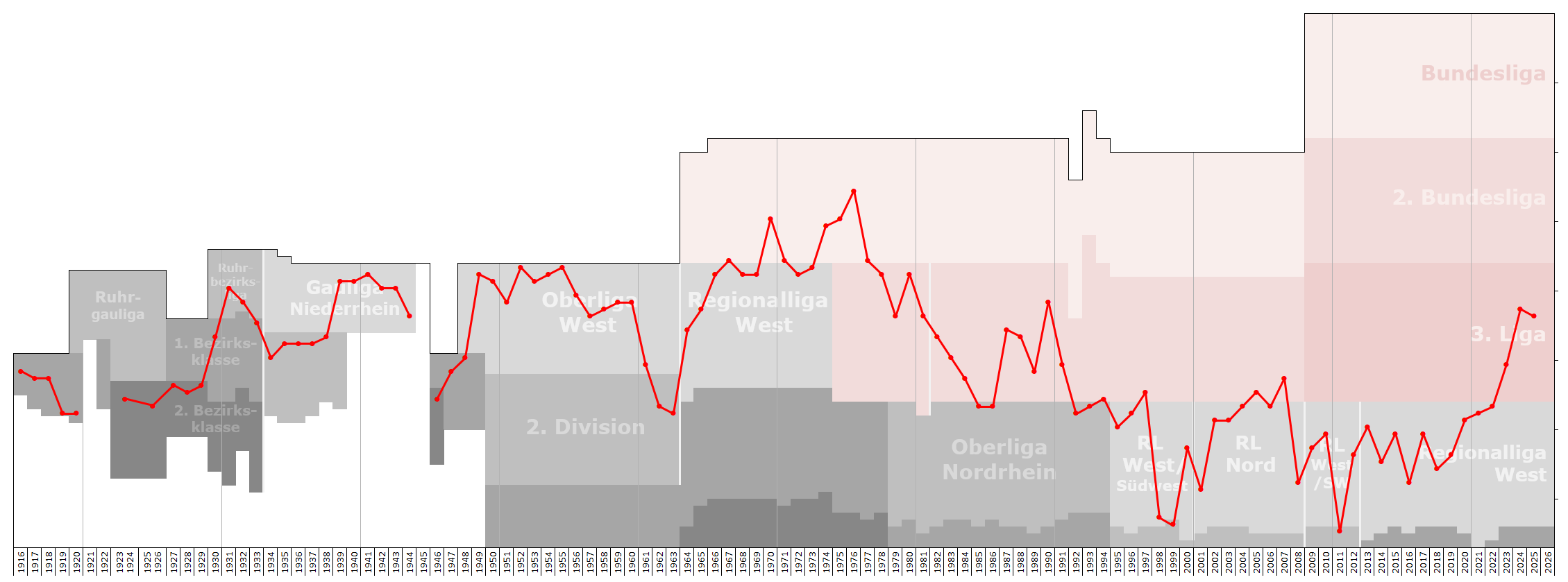 Chart of end-season table positions of Rot Weiss Essen in the football league system of Germany. Data source: RSSSF, wikipedia, f-archiv.de, fussball.de